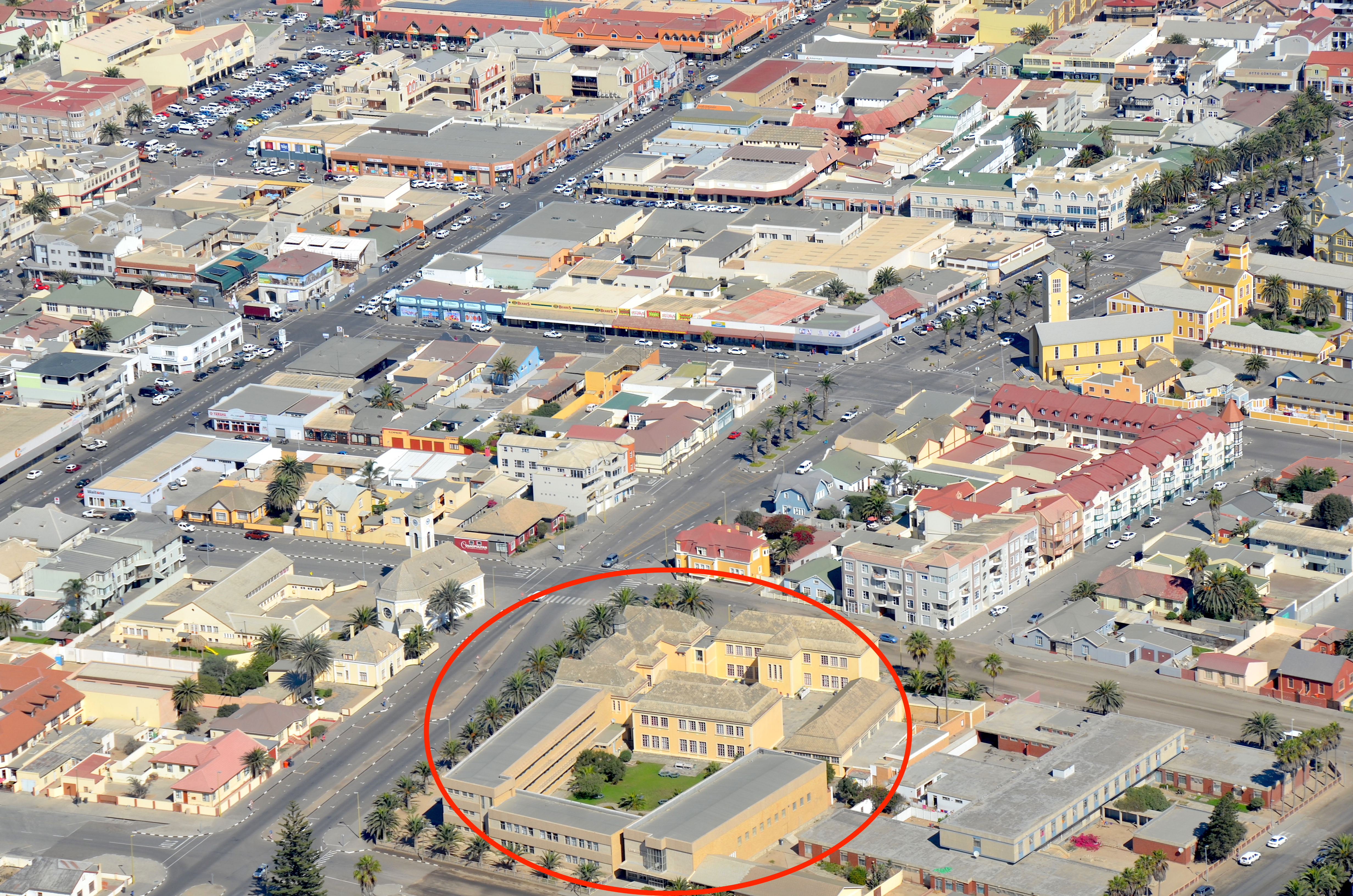 Namib High School from Bird´s eye view (2017)